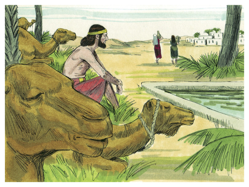 Biblical illustration of Book of Genesis Chapter 24